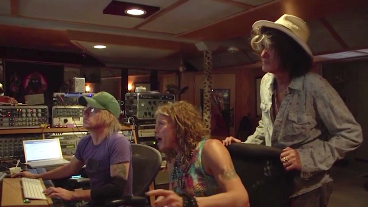 Paul Santo, sound engineer for Aerosmith along with Steven Tyler and Joe Perry at the "Boneyard" Studio in Massachusetts...